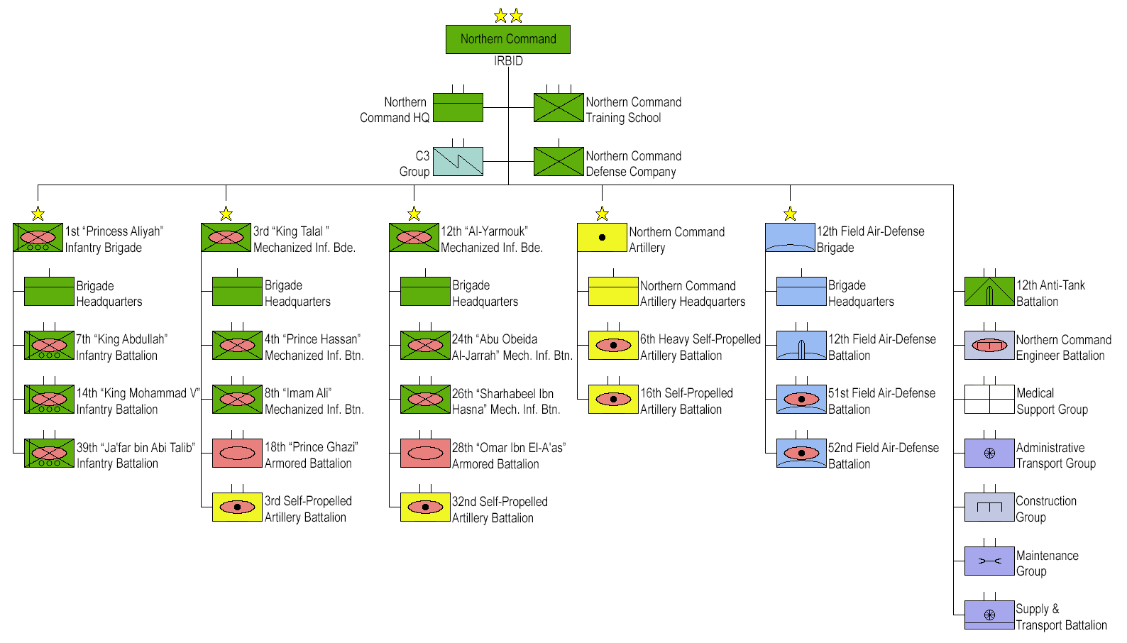 Jordanian Army Northern Command - OrBat 2013